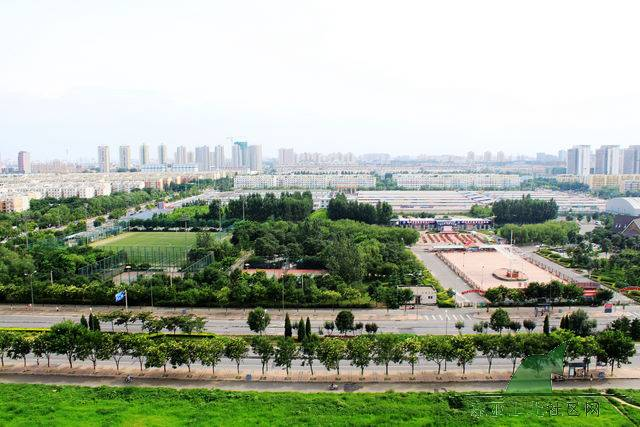 Huilongguan Sport Park